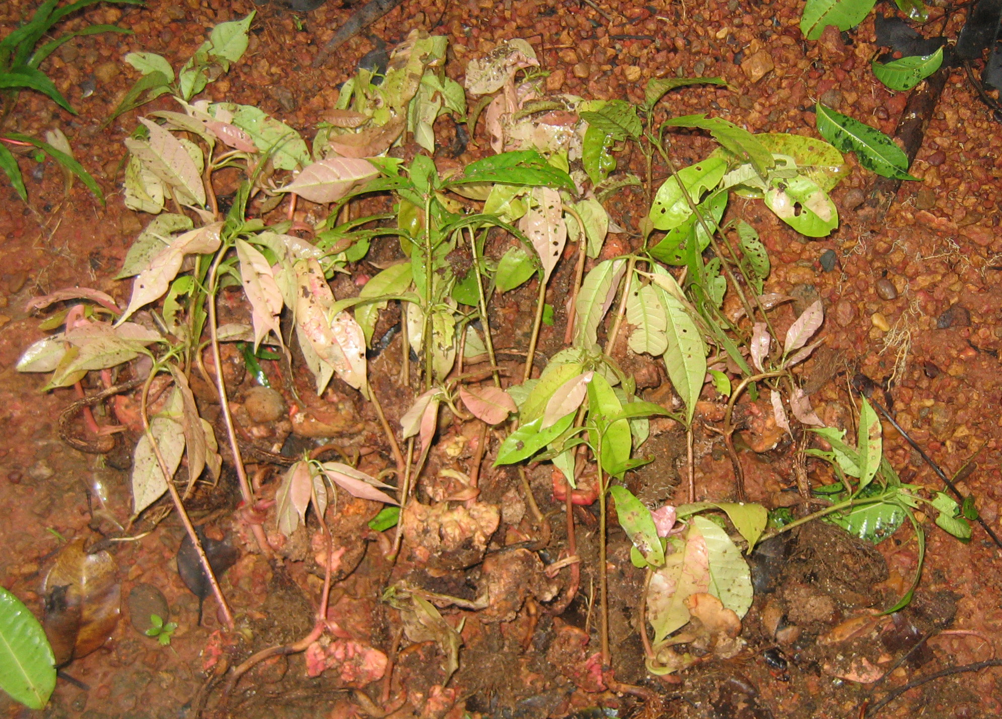 മഴക്കാലത്ത്‌ വെള്ളപ്പയിന്റെ ചുവട്ടില്‍ മുളച്ചു വന്ന തൈകള്‍ നടാനായി പെറുക്കിക്കൂട്ടിയിരിക്കുന്നു